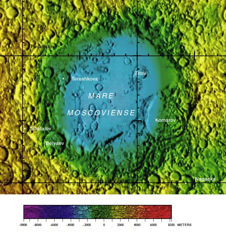 Part of the USGS far side lunar chart